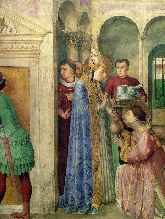 Title: Saint Lawrence Receiving the Treasures of the Church from Pope Sixtus II Artist: Angelico, Fra (1395-1455)